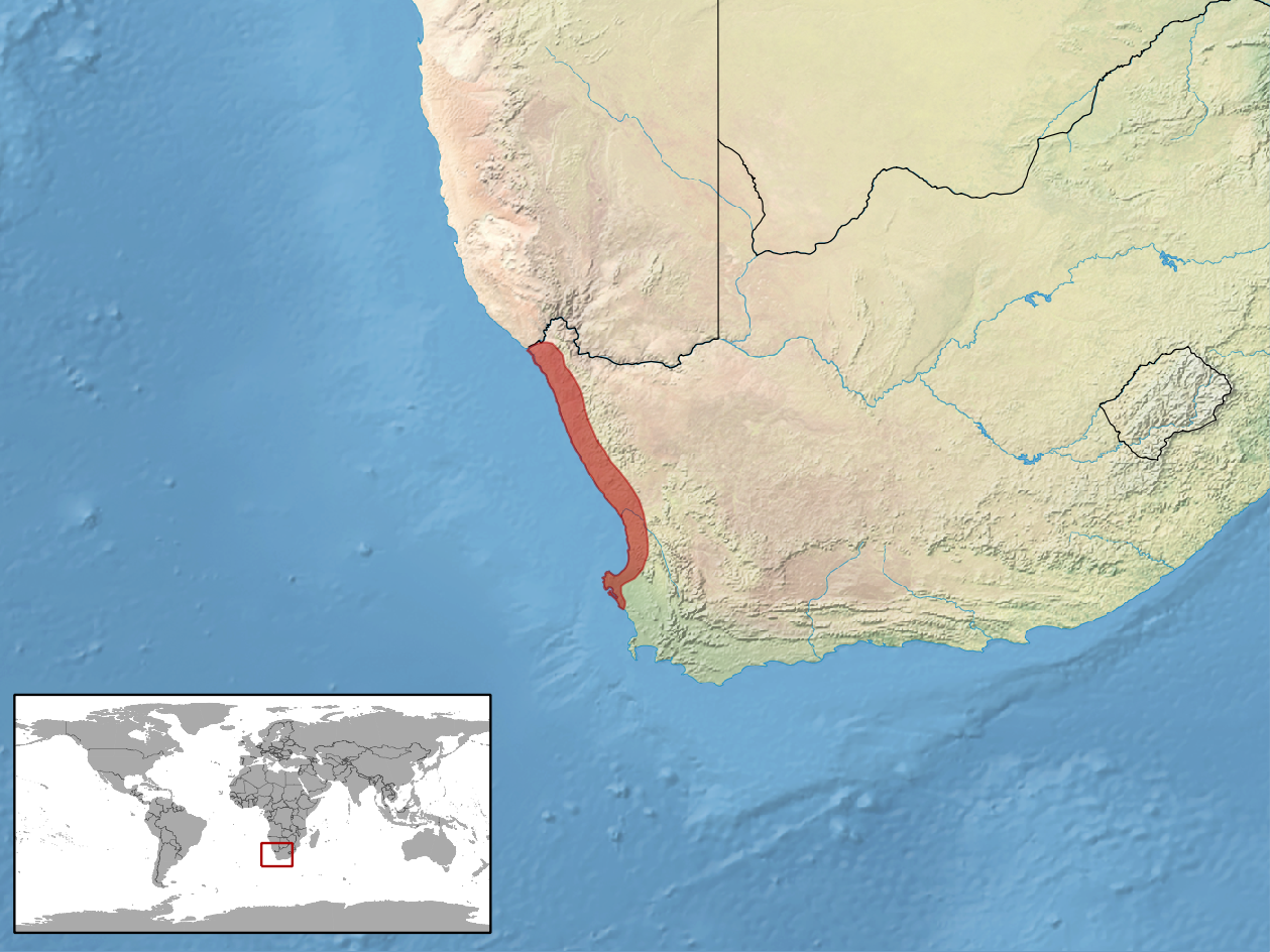 geographic distribution of Typhlosaurus caecus